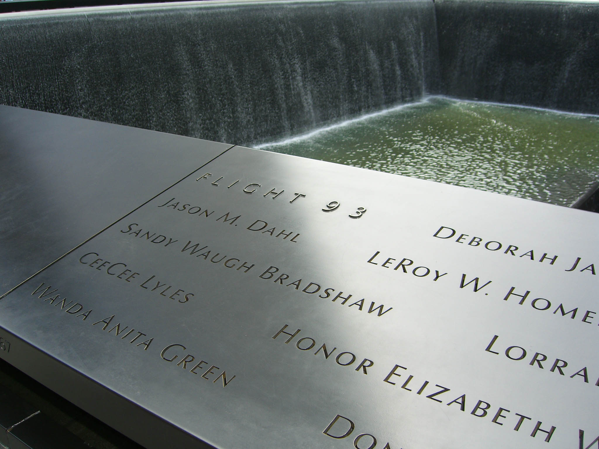 The names of passengers and crew of United Airlines Flight 93 passengers who lost their lives in the September 11 attacks on Panel S-67 of the National 9/11 Memorial's South Pool in Manhattan, as seen on April 28, 2012. This photo was created by Luigi Novi. If you have any questions, you can contact me by sending me an email or leaving a note at the bottom of my talk page.